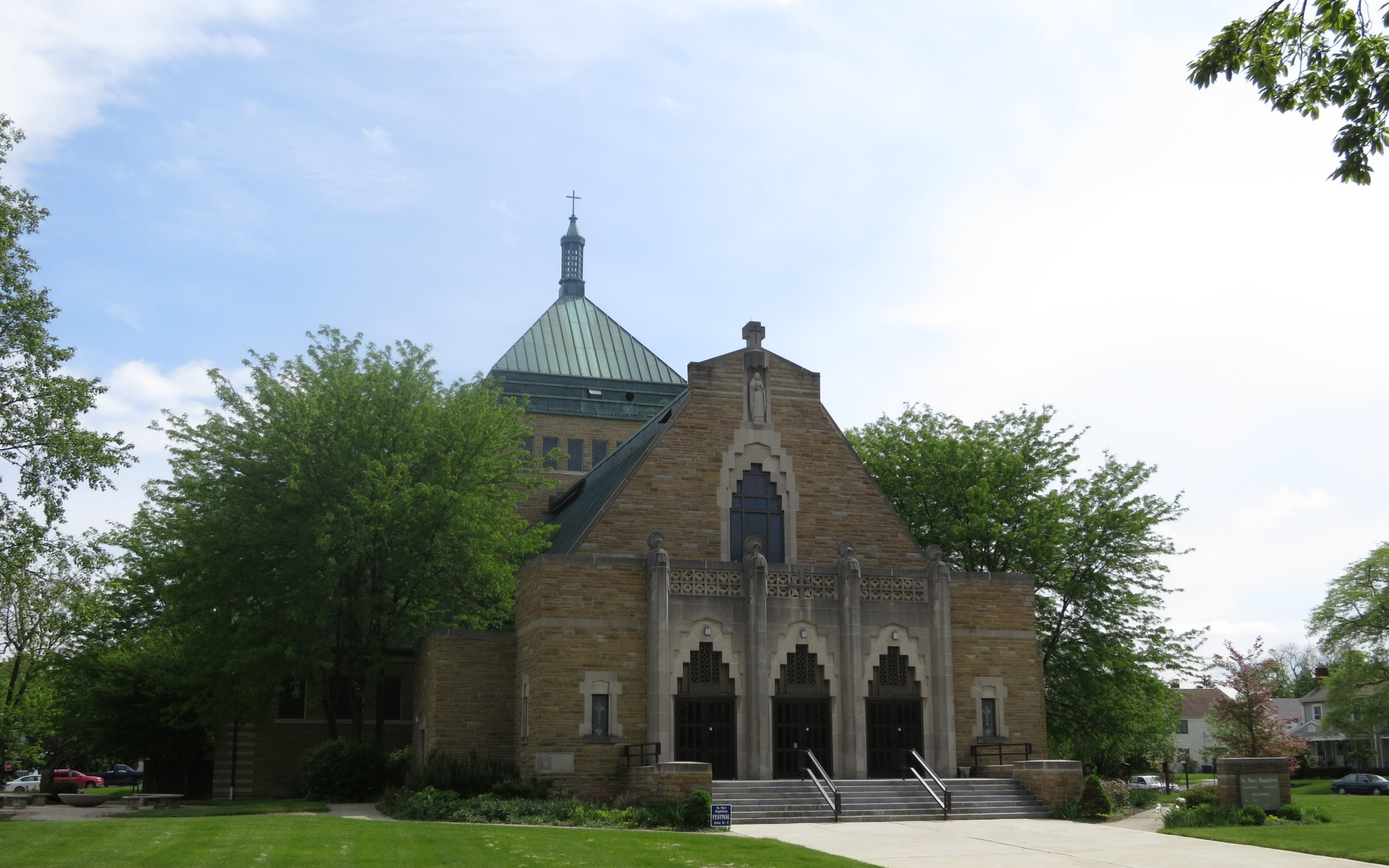 Saint Mary Magdalene Church (Columbus, Ohio) - exterior 2